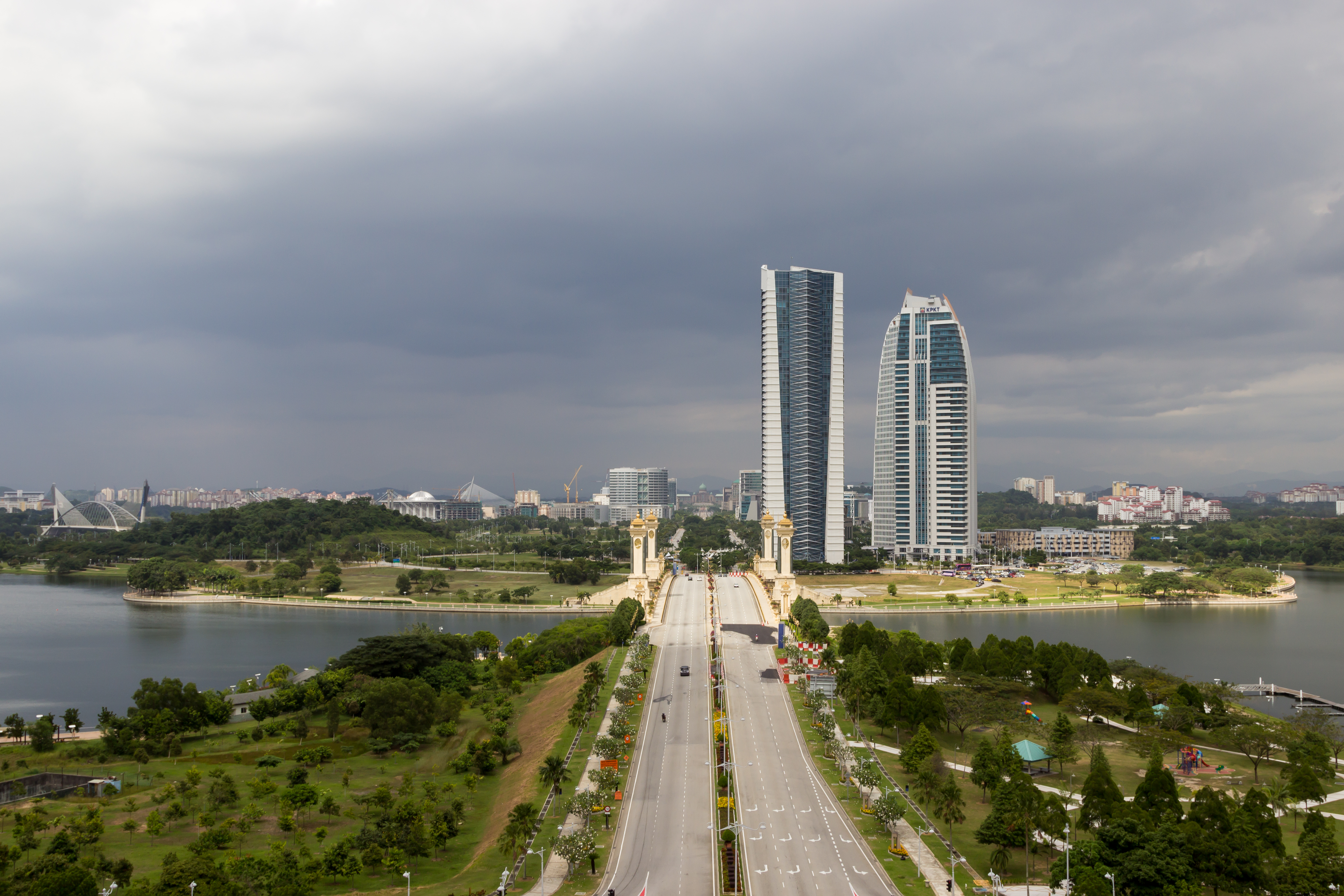 Putrajaya, Malaysia: Seri Gemilang Bridge. Behind the bridge on the right side Ministry of Women, Family and Community and Ministry of Urban Wellbeing, Housing and Local Government